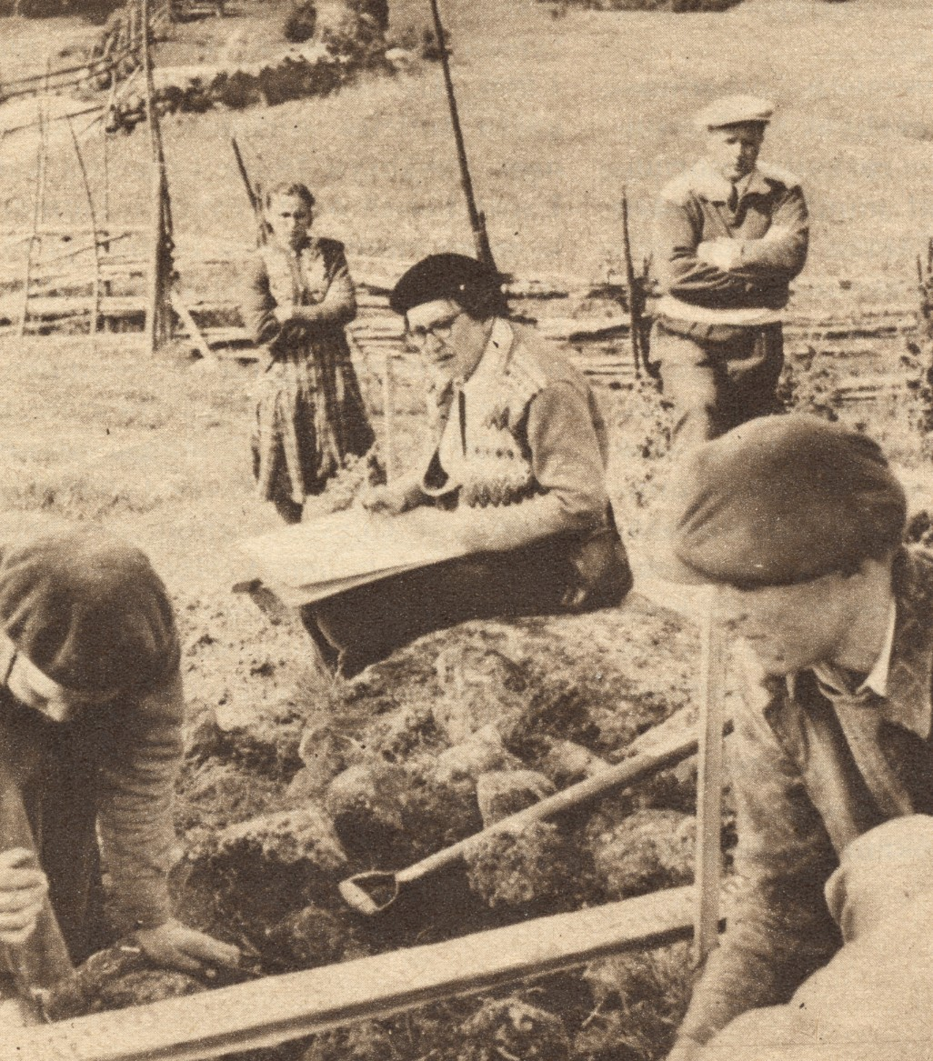 Archeologist Ella Kivikoski at Soukainen, Laitila, Finland